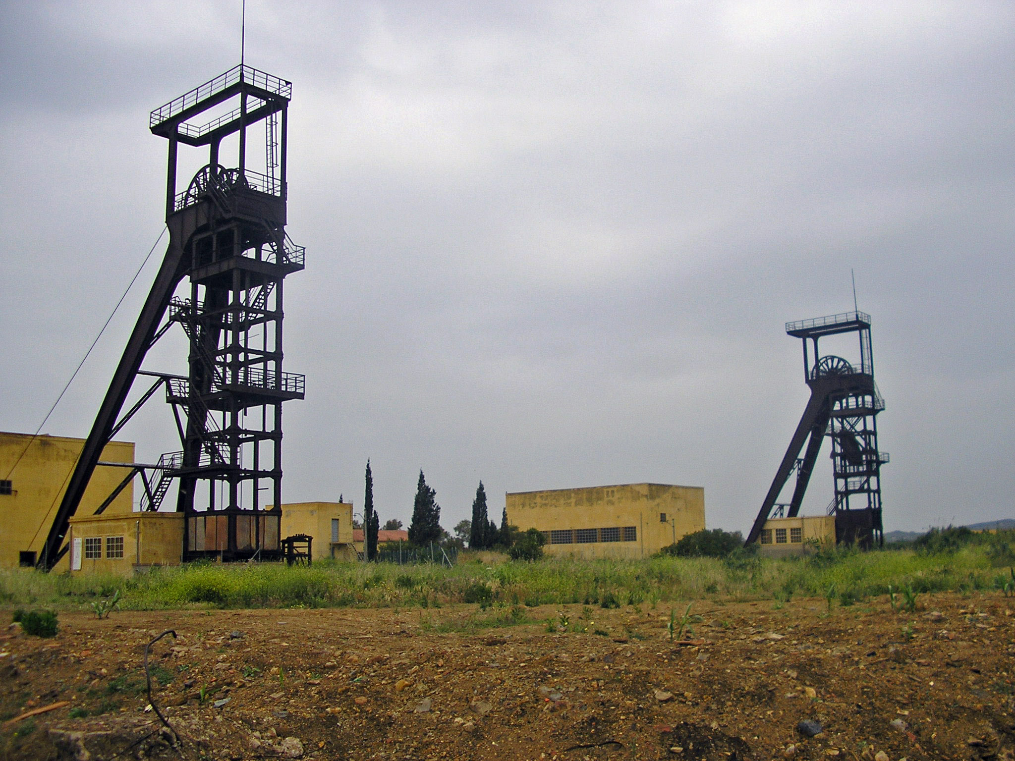 The towers of the elevators that leaded in the Serbariu coalmine, in Carbonia, Sardinia, Italy